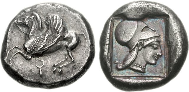 Corinth. Circa 515-500 BC. AR Stater (8.60 g, 9h). Pegasos flying left; koppa below Head of Athena right, wearing Corinthian helmet and necklace, hair tied behind neck, in linear square within incuse square. This coin is from the first class of staters in Ravel’s group 2 coinage, distinguished by the presence of the linear border around the head of Athena on the reverse. The Selinus hoard confirmed Ravel’s placement of this class, which was the first to feature Athena on the reverse, replacing the earlier quadripartite incuse square type. The depictions of Athena on these early issues are striking in their quality, emphasizing the importance that the Greek cities placed on the artwork that was displayed on their coinage.